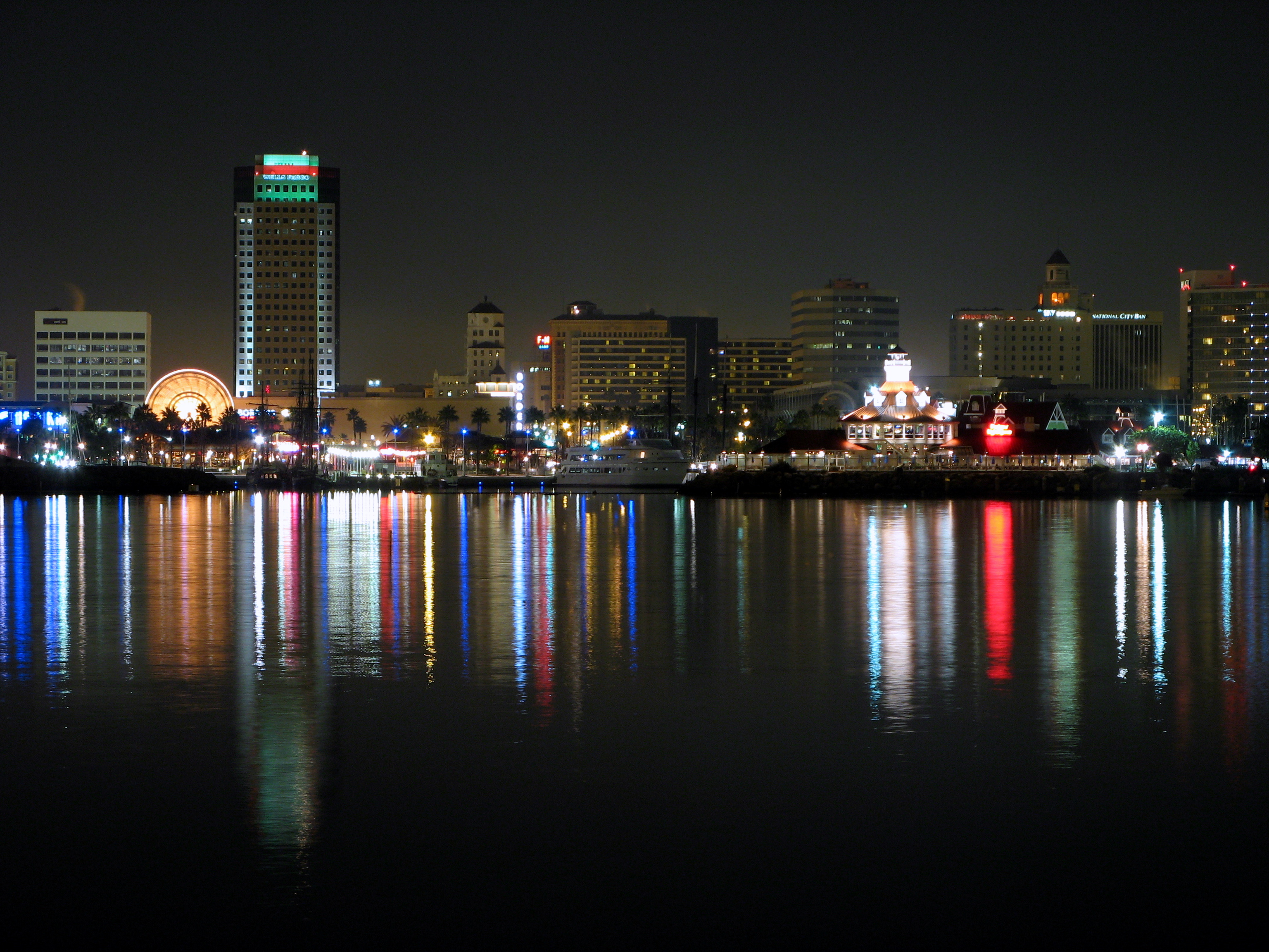 Downtown Long Beach, California at night Photographed and uploaded by user:Geographer.